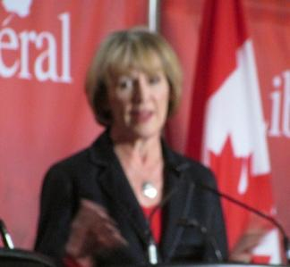 Liberal Party of Canada leadership candidate Joyce Murray